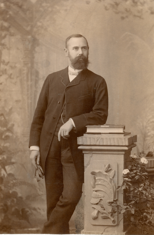 Ferdinand Sander, german politican and entrepreneur. Honorary citizen of Lahr.